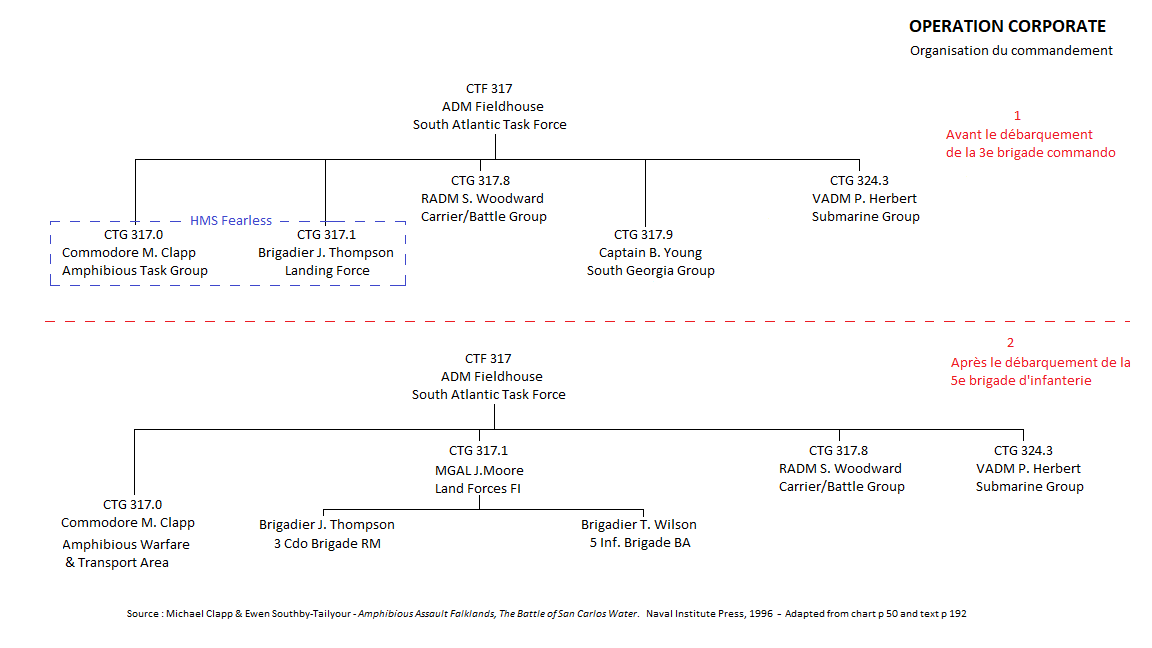 Operation Corporate command structure 1982 in French. Presents organization before landing and before end of war.